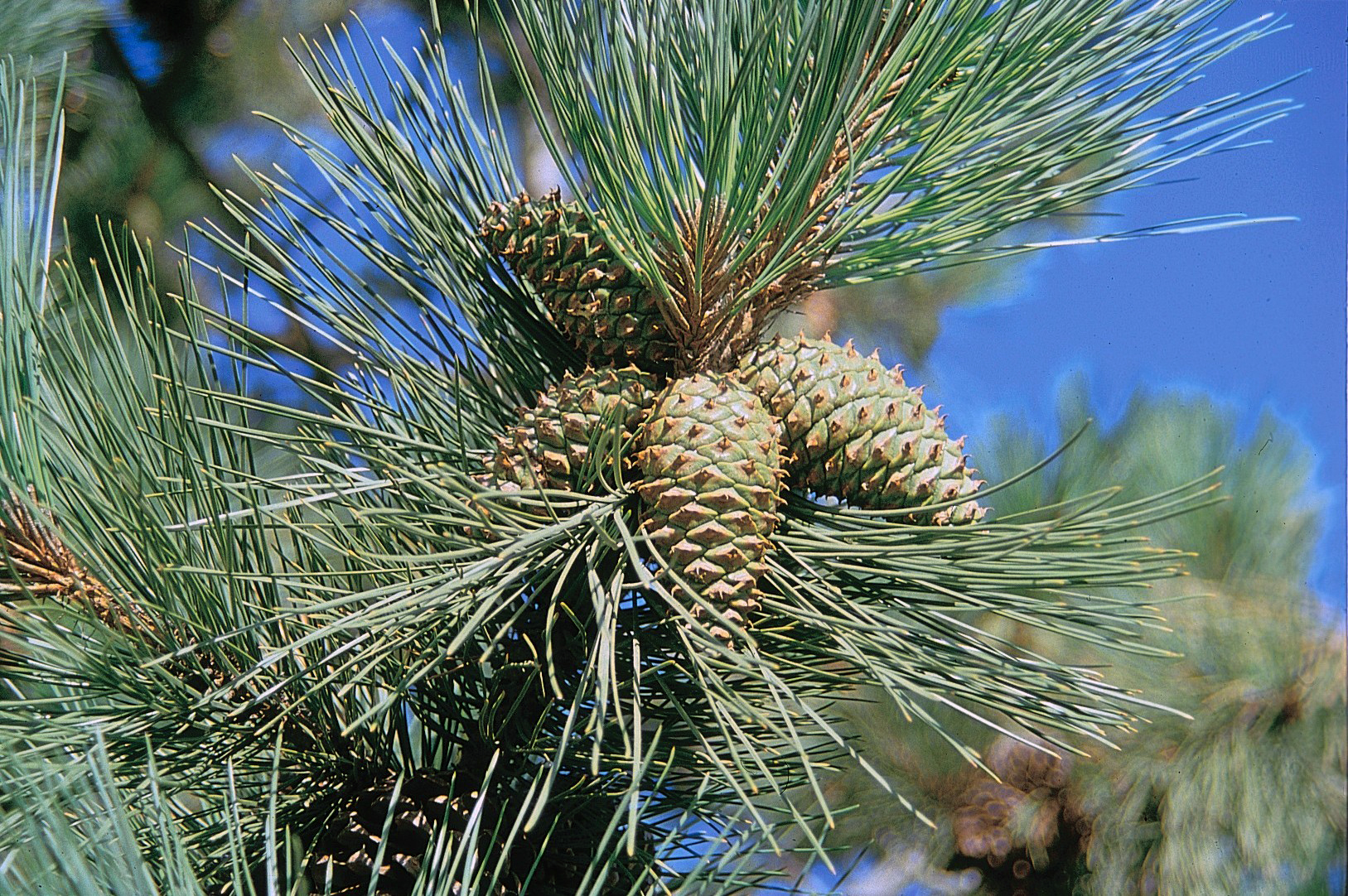 Rocky Mountains Ponderosa Pine. Branch with pine cones.